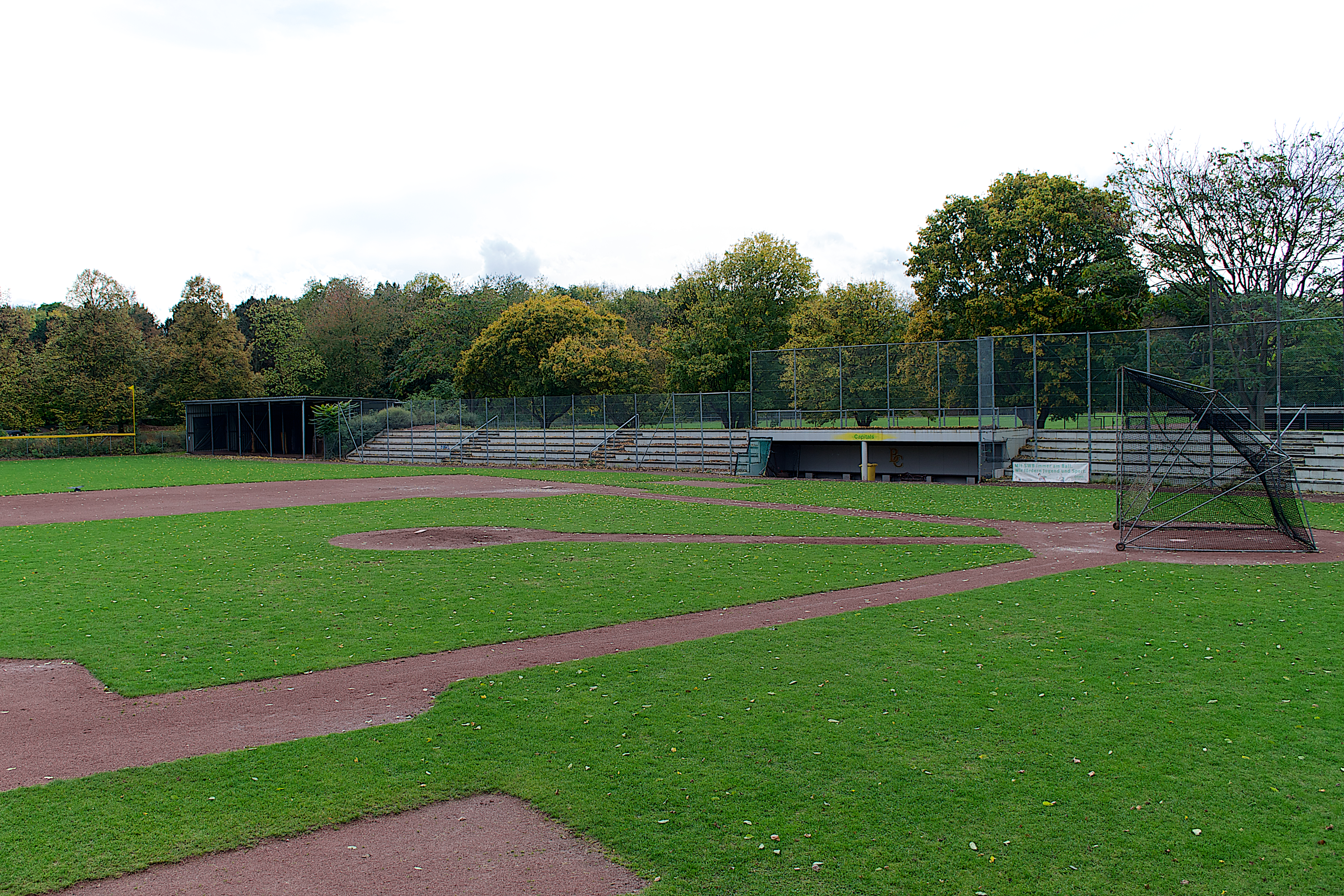 Baseball Grounds in the Rheinaue, Bonn, Germany